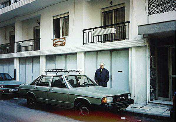 View from outside, image from the Hadzilia Folklore and Ethnological Museum, Serres, East Macedonia, Greece